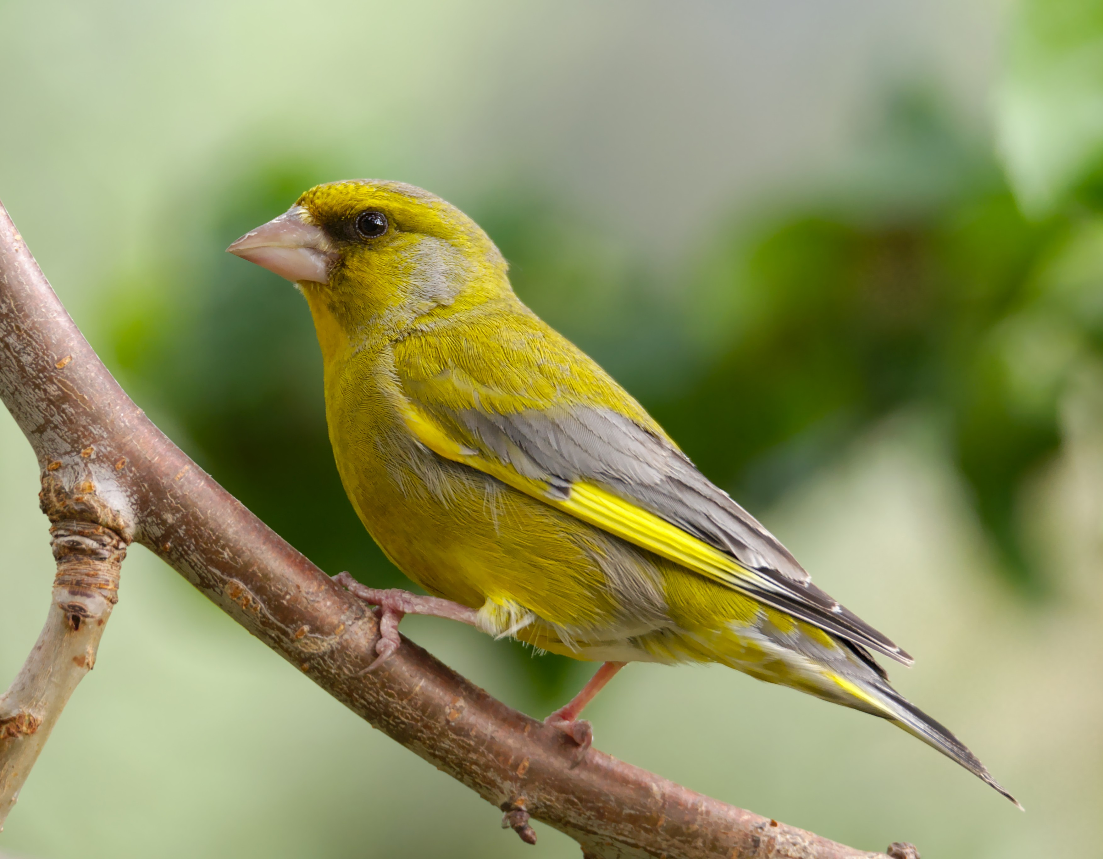 Male greenfinch (Chloris chloris) sitting on a branch. Photographed in a garden in Jena, Germany.